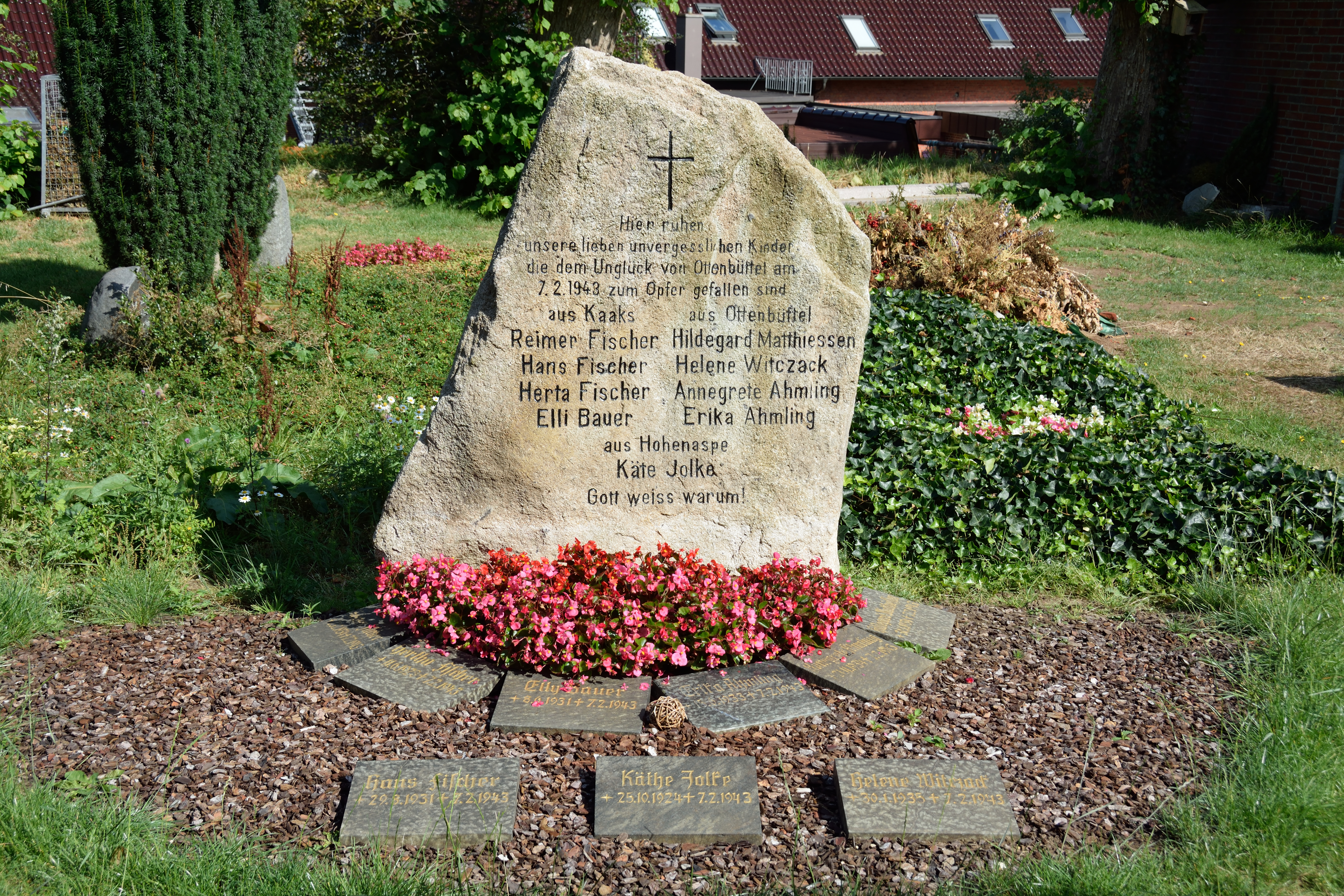 Memorial stone grave slabs for nine children who were killed in a collapse of a gable wall during a snowstorm.